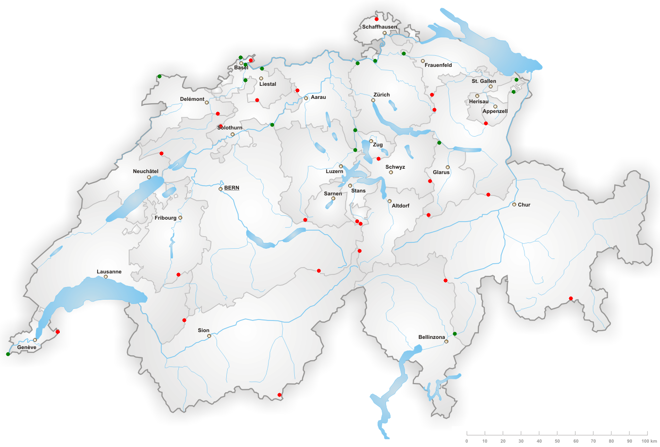 Map of Switzerland with cantons highest points (red) and lowest points (green). Map from Wikimedia Commons ( modified with Paint.